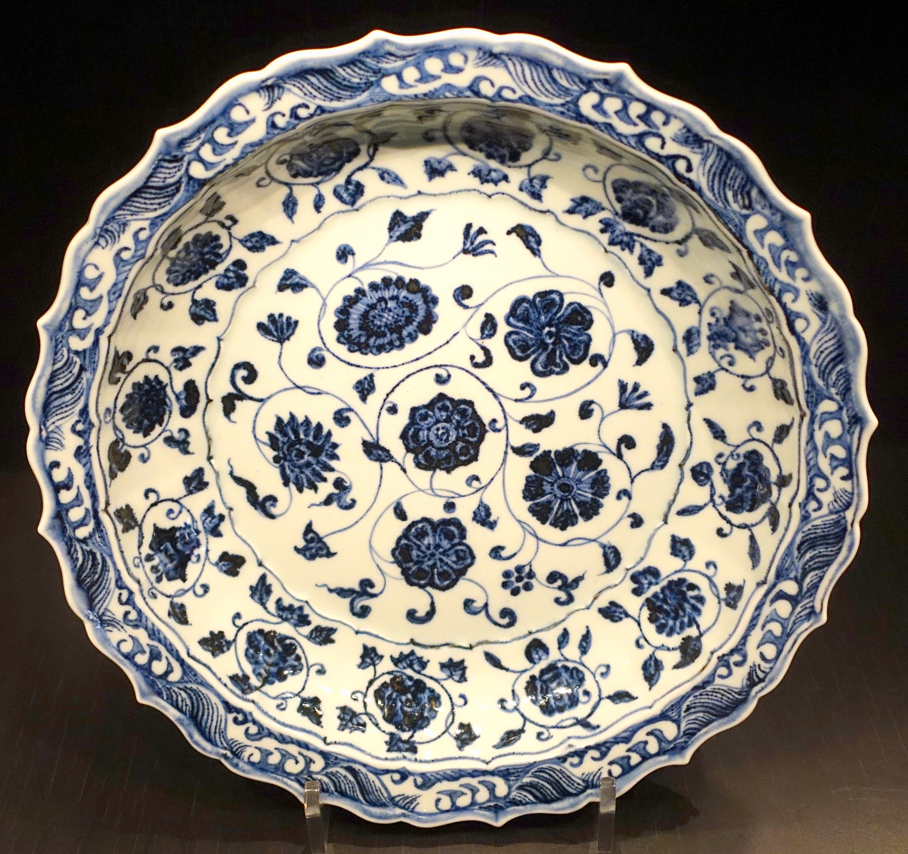 Exhibit in the Östasiatiska museet, Stockholm, Sweden. This artwork is old enough so that it is in the public domain.